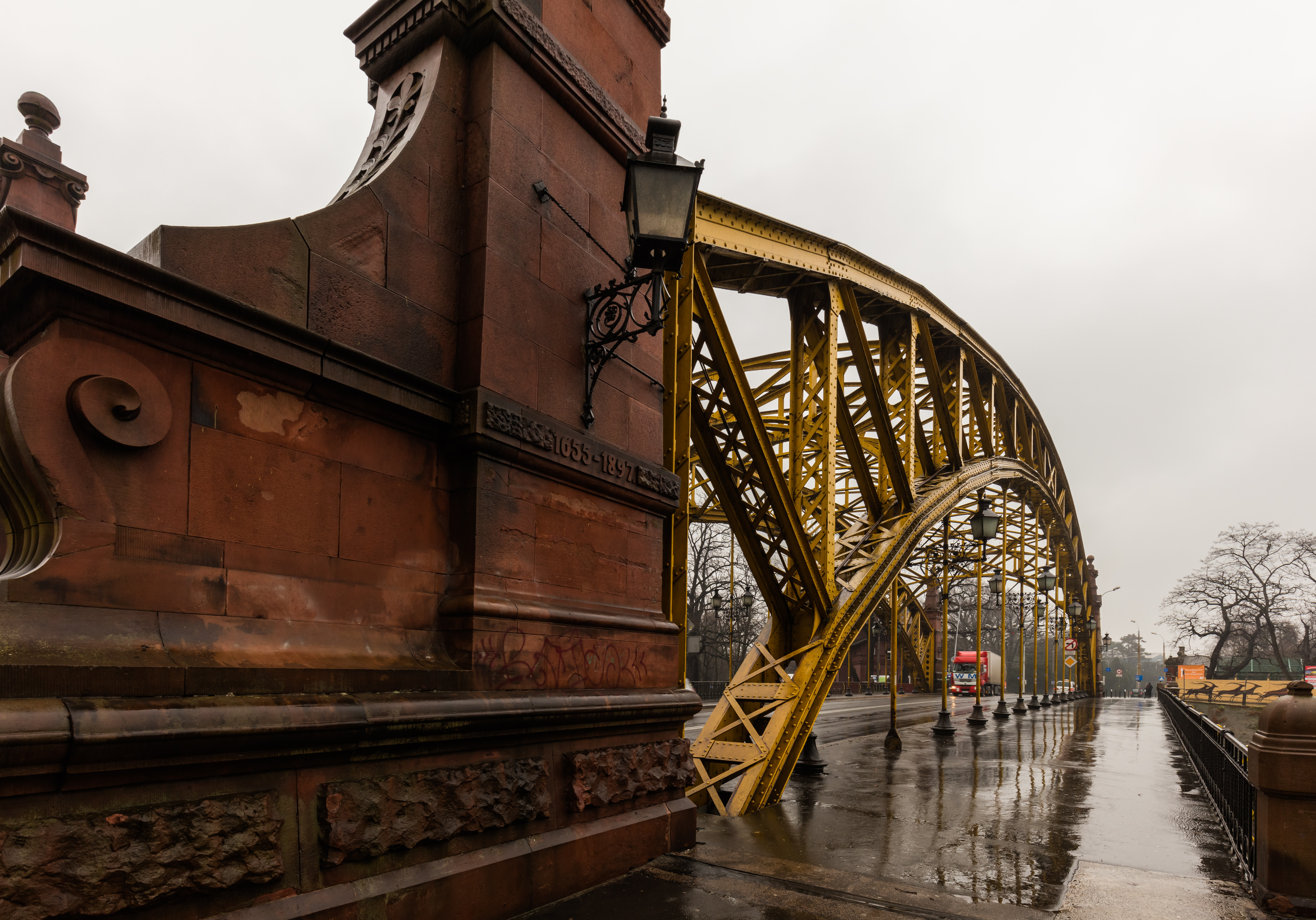 Zwierzyniecki Bridge, Wrocław, Poland